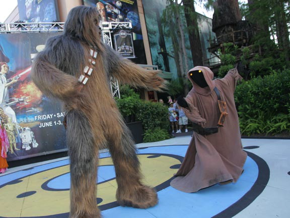 "Dancing with the Star Wars Stars." Here, Chewbacca and a Jawa compete in the contest with Bee Gees'-styled disco moves. Photo by Ron Riccio. For video coverage of the third Disney Weekend of 2007, click here.